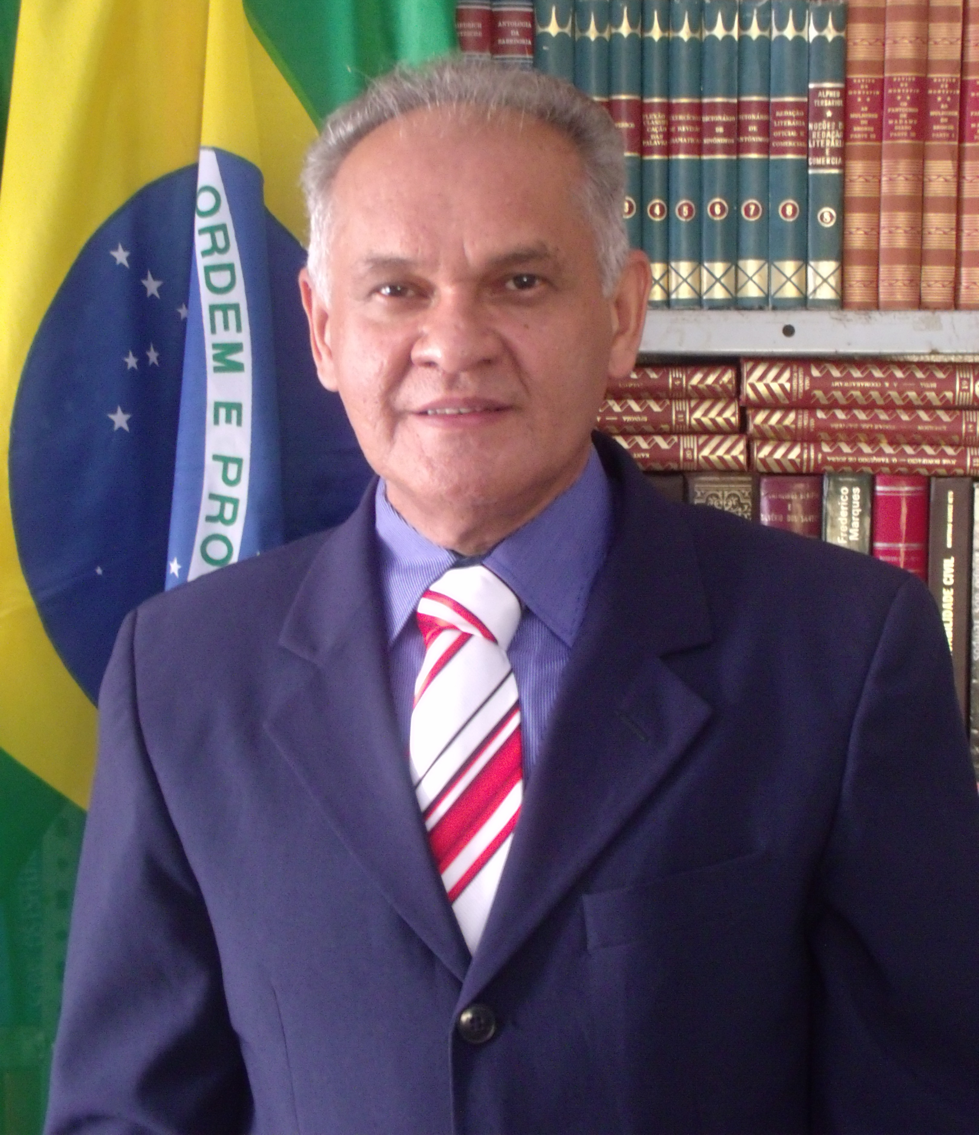 Pedro Monteiro cordelist in Brazil in 2018